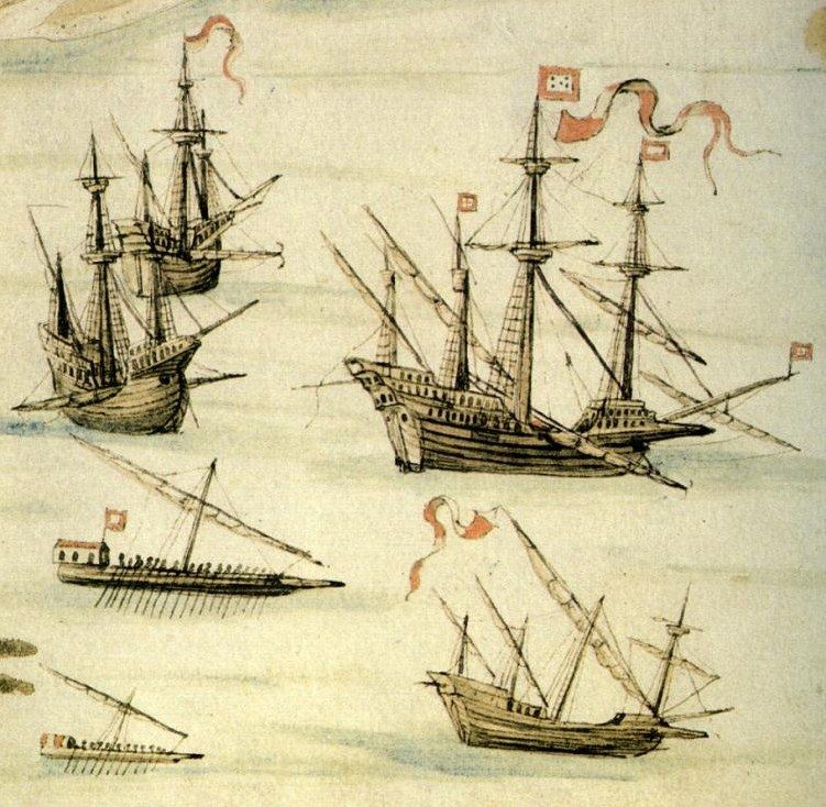 Portuguese Carracks, galleon, round square caravel and galleys, in the Routemap of the Red Sea, depicted by João de Castro during the Portuguese expedition to Suez - Egypt, in 1541.